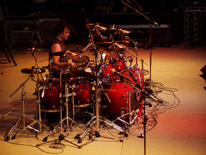 Jimmy DeGrasso in concert